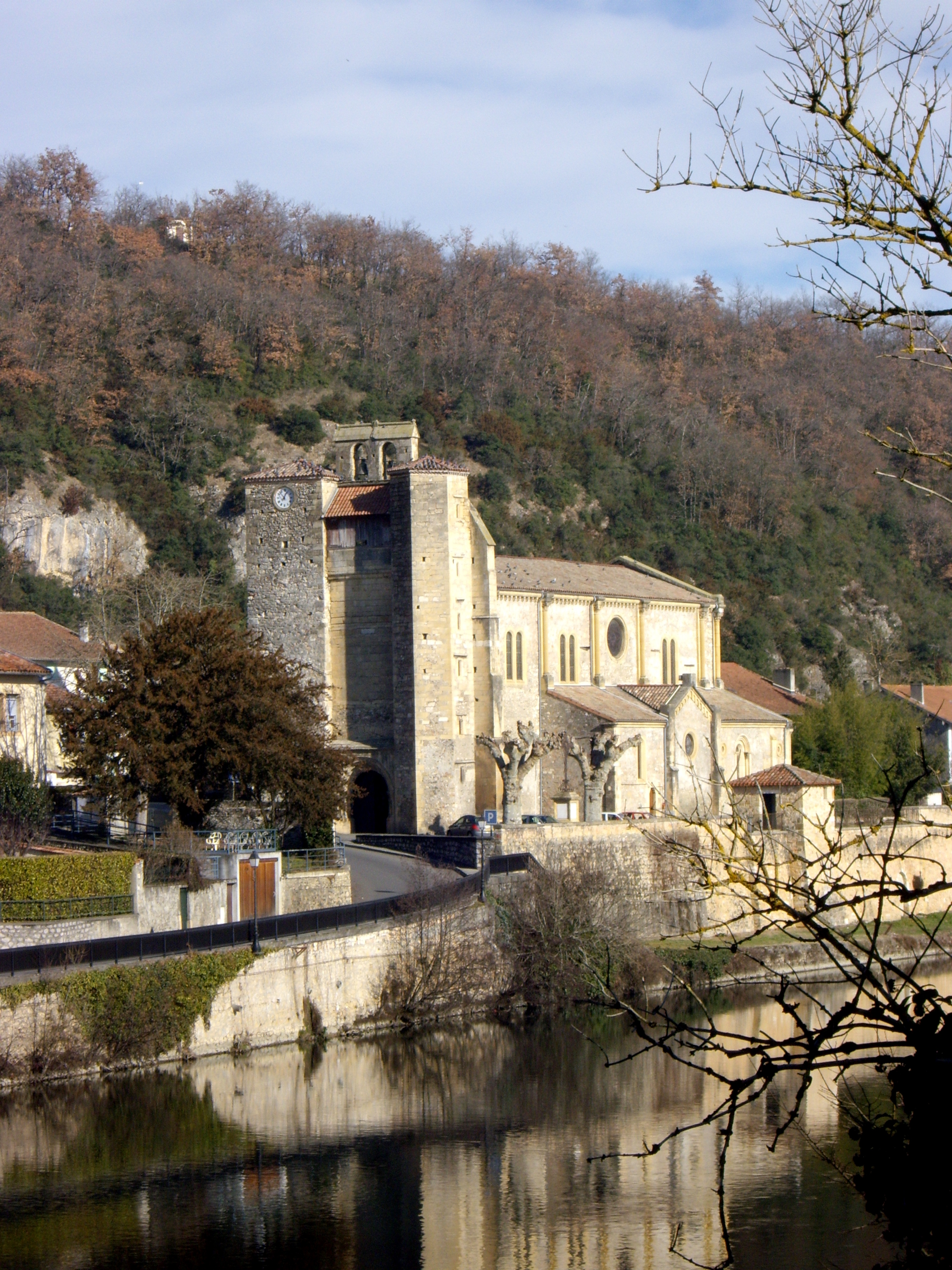 St Matory Church, Haute-Garonne, France